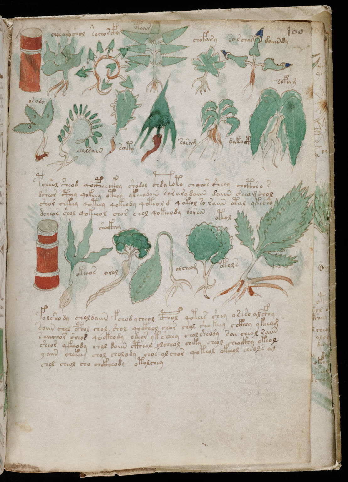 A page from the mysterious Voynich manuscript, which is undeciphered to this day.